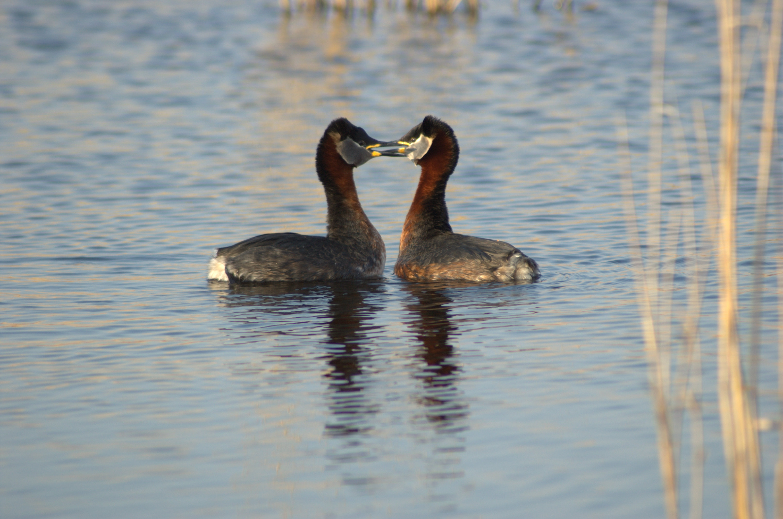 Male and female of species Podiceps grisegena engaged in courtship (image taken in late march). en: Two Red-necked Grebes engaged in courtship. Camera: Nikon D50 Location: Amager Faelled (north of Bella Center) at Vestamager in Copenhagen, Denmark.